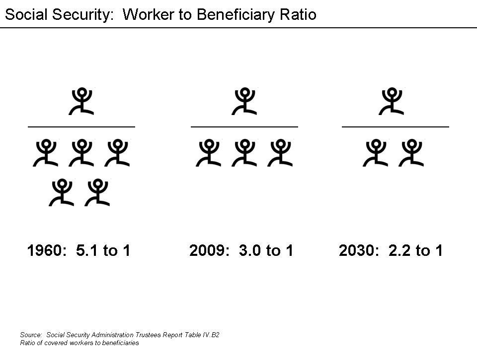 Social Security - Ratio of workers to beneficiaries Explanation The ratio of covered workers (those who pay into the program and will receive benefits) to beneficiaries (those receiving payments) continues to decline as America ages and fertility rates decline.[1] This chart concept was drawn from a slide by the Concord Coalition. An article in The Economist in April 2011 had the overall "support ratio" (the ratio of working age people to those beyond retirement age) at 5.3 in 1970, 4.6 in 2010 and 2.6 in 2050. This decline is happening all over the developed world.[2]